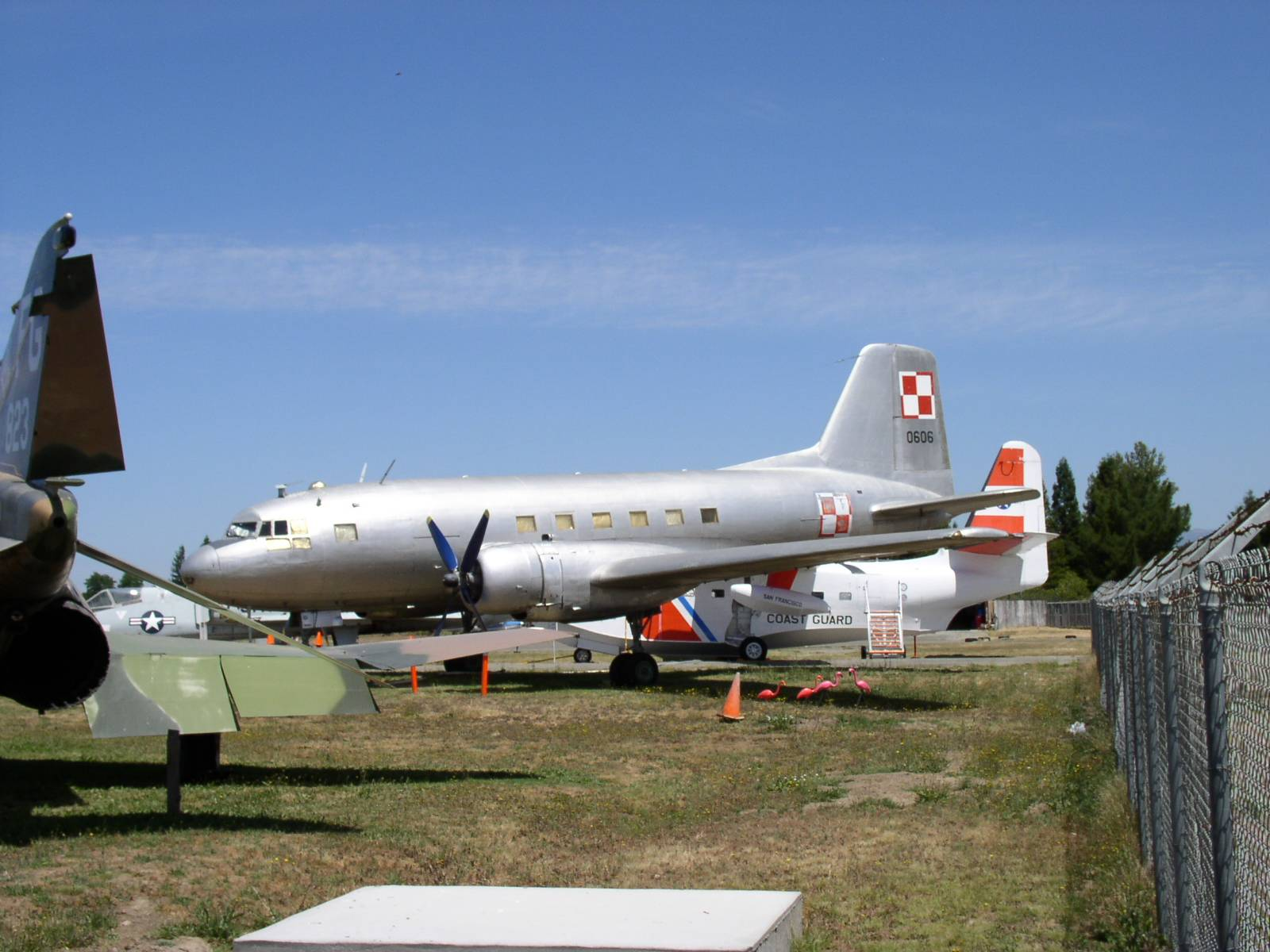 Ilyushin Il-14 "Crate". Taken in Pacific Coast Air Museum, Santa Rosa, California, USA.